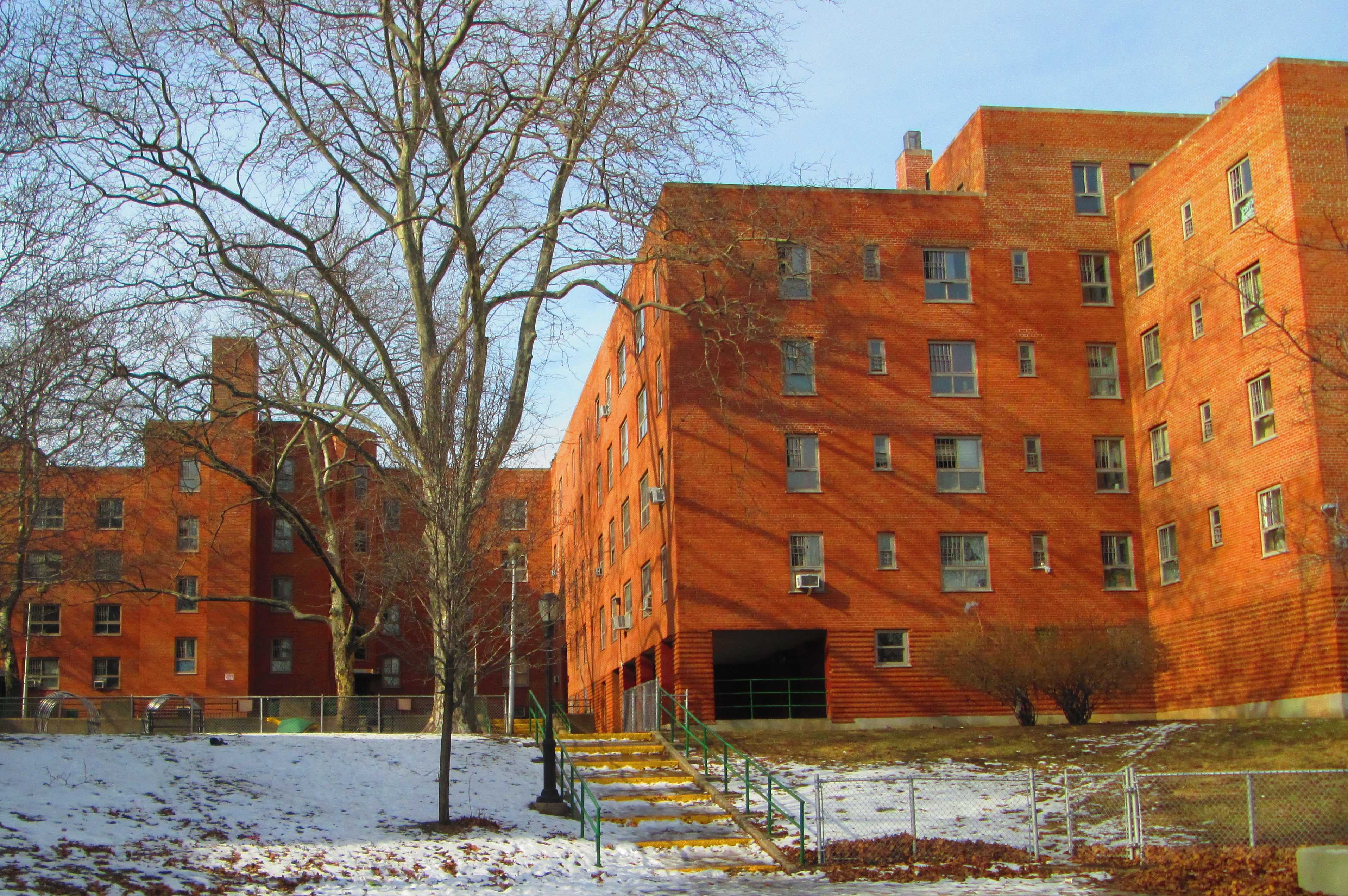 The Harlem River Houses is a New York City Housing Authority public housing complex located between West 151st and West 153rd Streets and between Macombs Place and the Harlem River Drive in the Harlem neighborhood of Manhattan, New York City. The complex, which covers 9 acres (3.6 ha), was built in 1936-37 – one of the first two housing projects in the city funded by the Federal government – with the goal of providing quality housing for working-class African Americans.